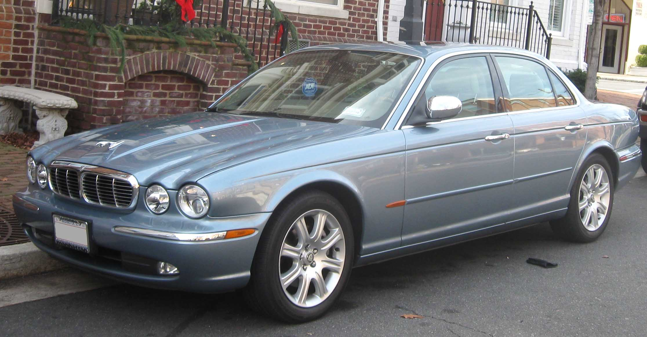 2004-2005 Jaguar XJ8 photographed in Alexandria, Virginia, USA.